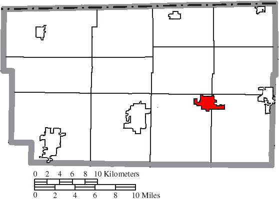 Map of the municipal and township boundaries of Fulton County, Ohio, United States, as of the 2000 census, with the location of the village of Delta highlighted. Township borders are shown only in unincorporated areas in order to differentiate incorporated and unincorporated areas more clearly.